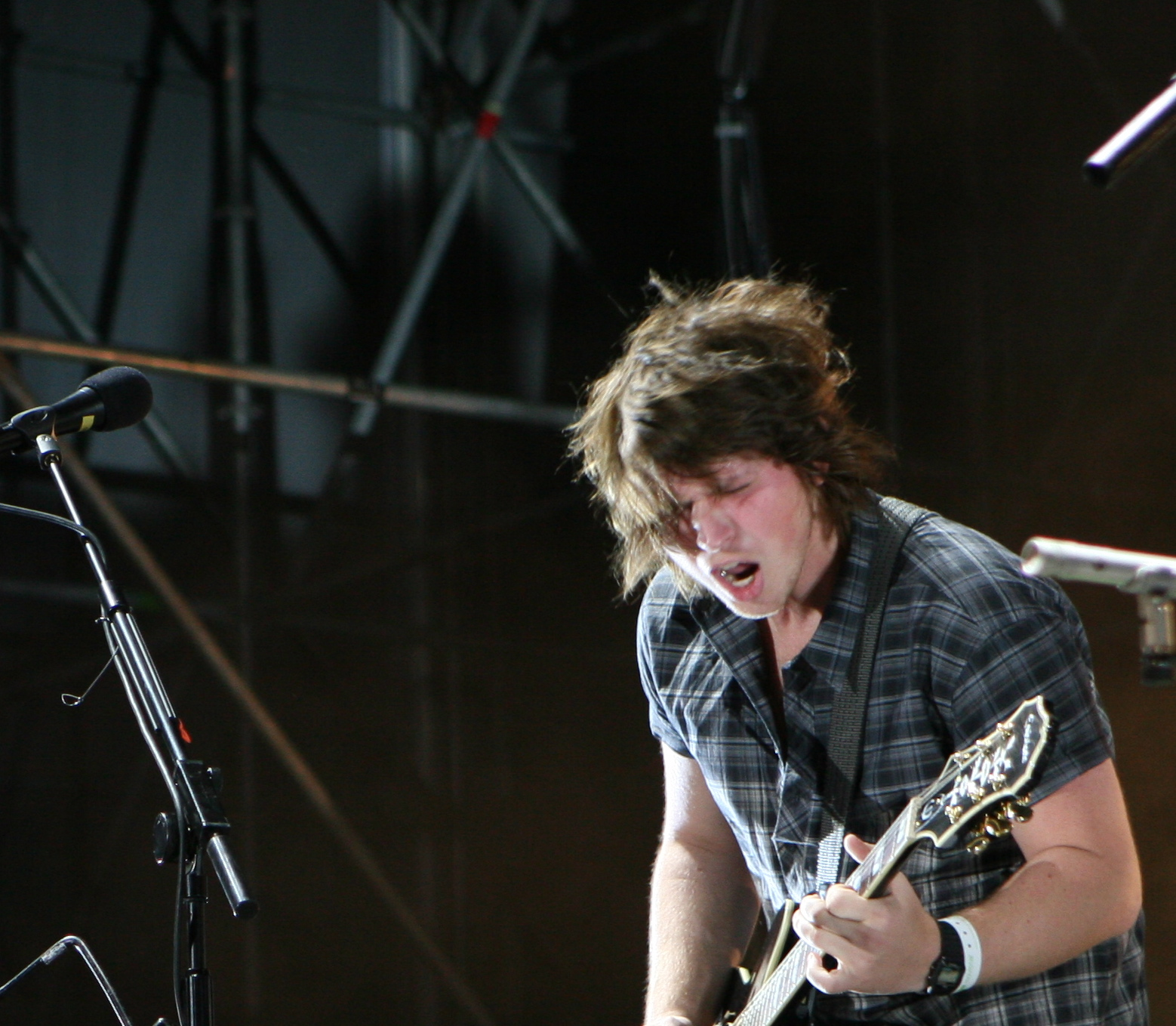 Matthew Followill (Kings of Leon)